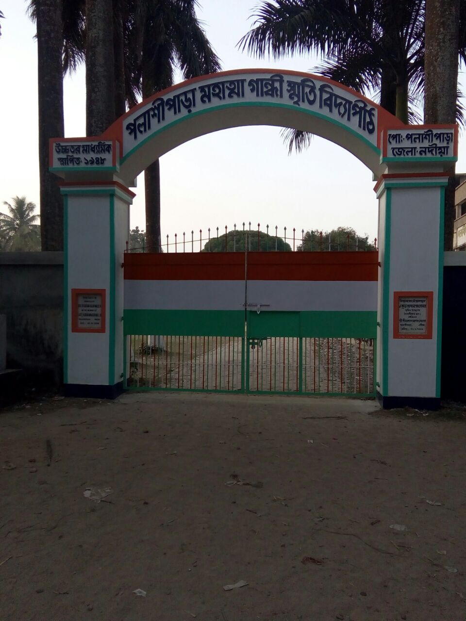 পলাশীপাড়া মহাত্মা গান্ধী স্মৃতি বিদ্যাপীঠ, নদীয়া